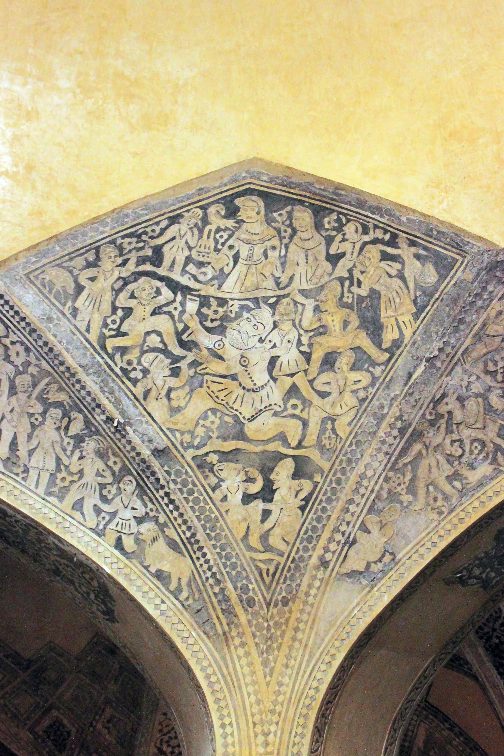 Vakil Bath is an old public bath in Shiraz, Iran. It was a part of the royal district constructed during Karim Khan Zand's reign, which includes Arg of Karim Khan, Vakil Bazaar, Vakil Mosque and many administrative buildings.The monument is inscribed with the number 917 on the list of national works of Iran.